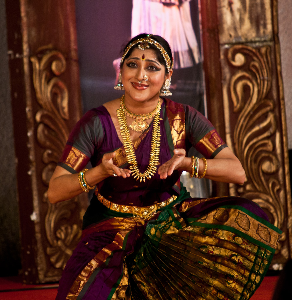 Onam Week Celebrations, Kochi